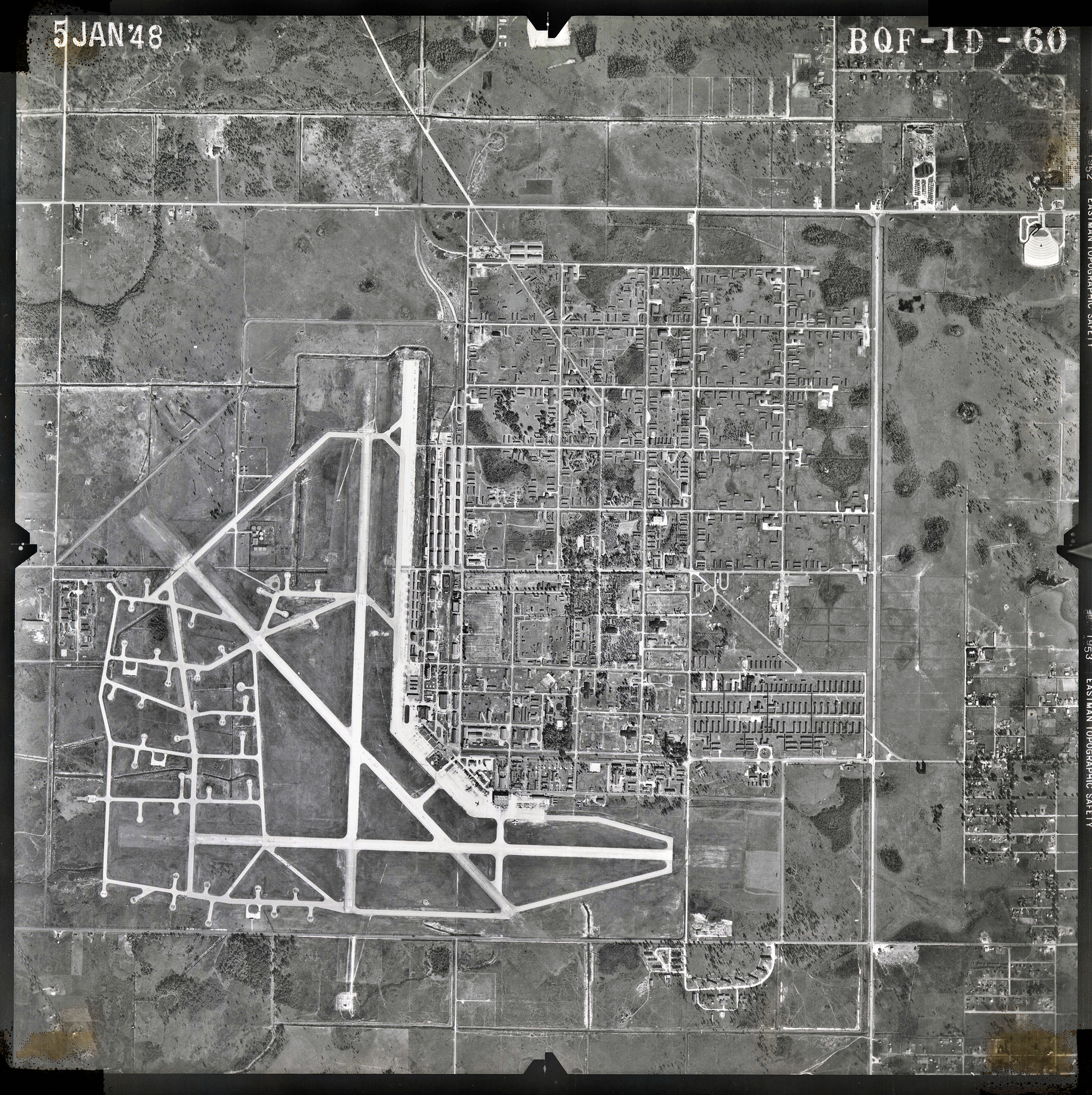 January 5th 1948 aerial photo of Drew Field in Tampa, FL